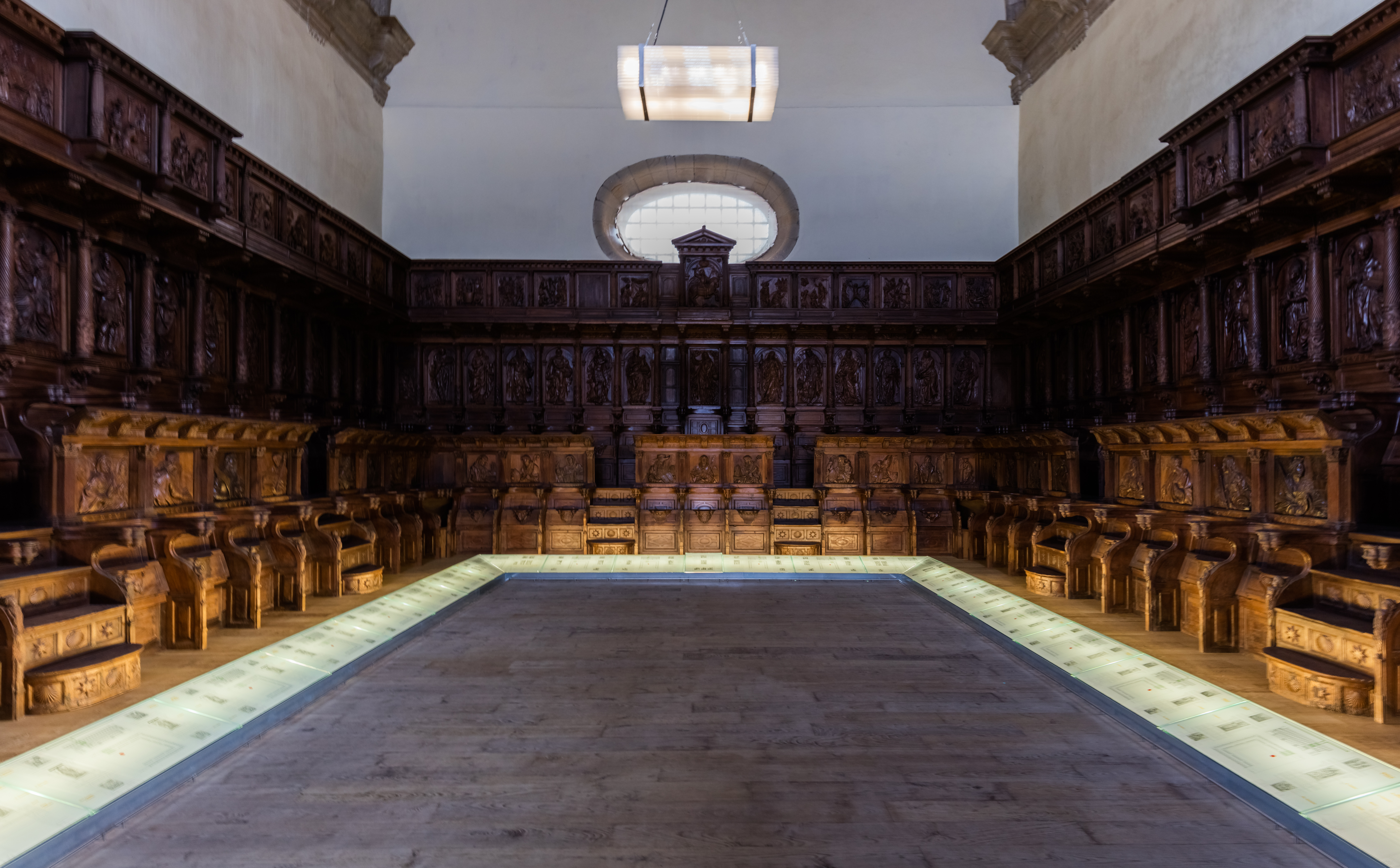 San Martin Monastery, Santiago de Compostela, Spain